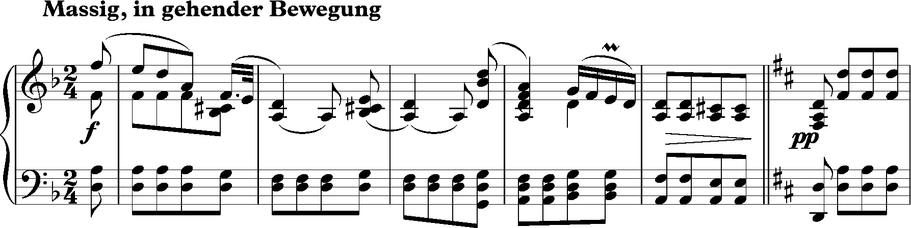 Schubert, "Gute Nacht", piano link to the final verse, where the key changes from minor to major.